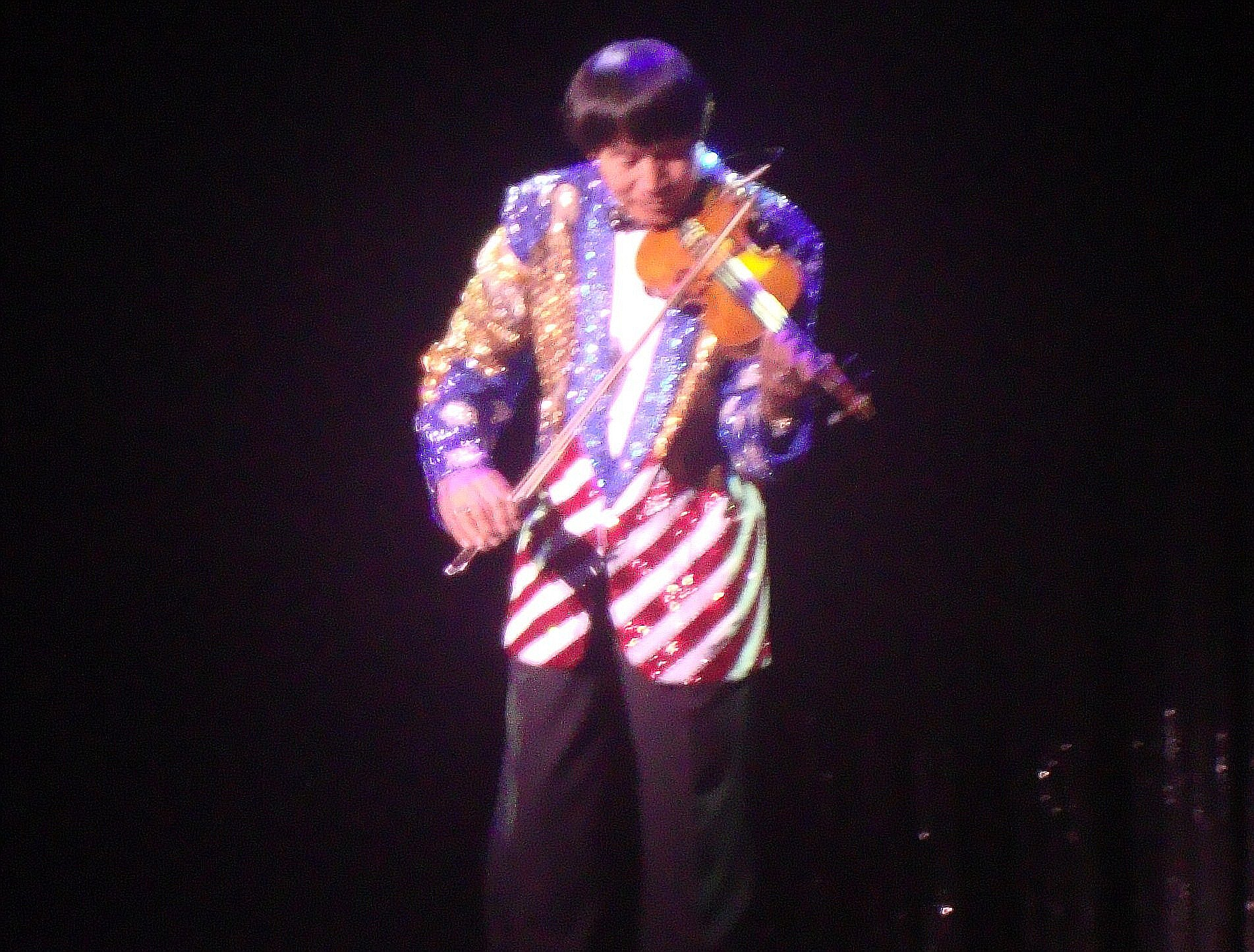 This is a picture of Shoji Tabuchi, a musician, at has a show in Branson Missouri.